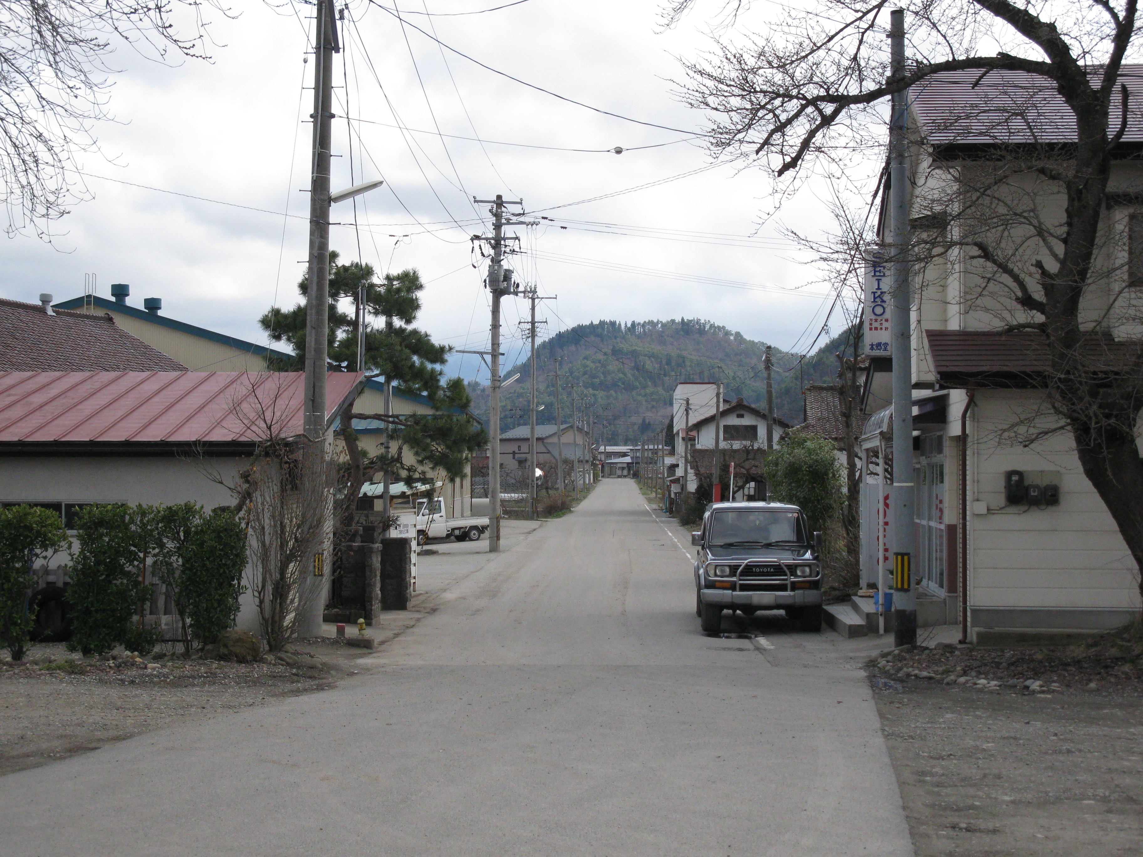 Fukushima prefectural road no.219 0km point (at Aizuwakamatsu, Fukushima)